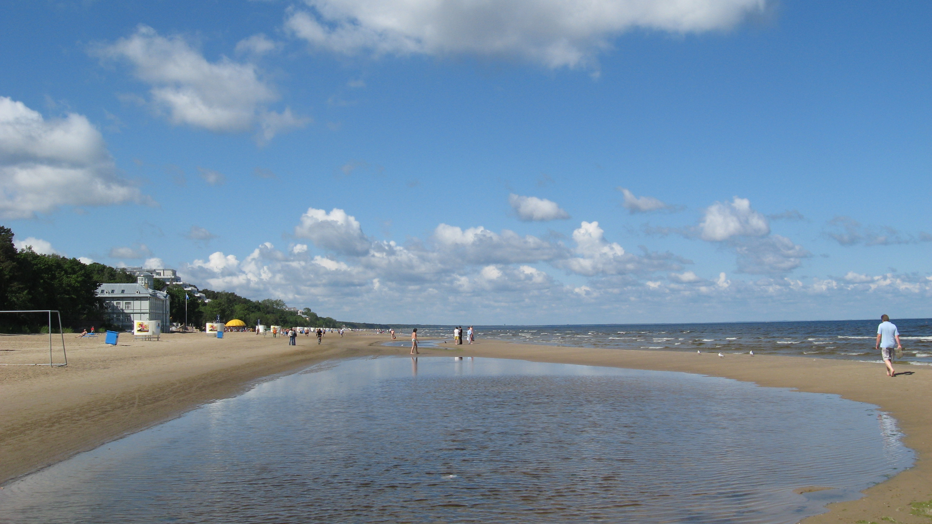 Majori beach in Jūrmala, Latvia.